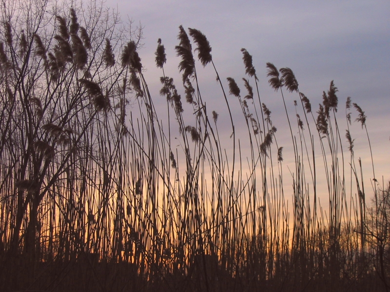 Photo of grass in the Back Bay Fens in Boston, Massachusetts, November 2004. Photo taken by amysayrawr.